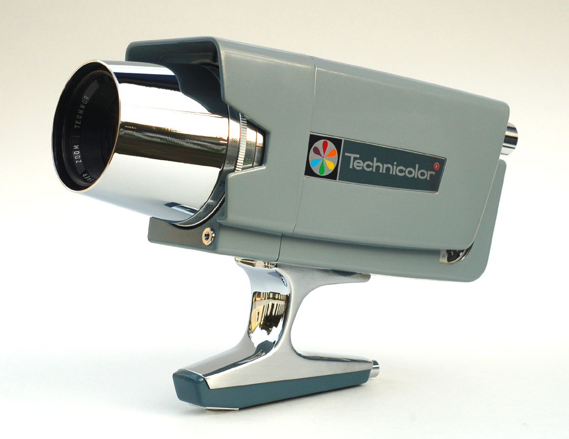 The Technicolor Mark Ten is a movie camera for super eight film cartridges. It's got an awesome 12-36mm 1:1.8 zoom lens, and it was made around 1966 or 67, which is no surprise since it looks like it's straight out of the original Star Trek series. There's not alot of information about this camera on the web, but one source says it was made by Minolta.